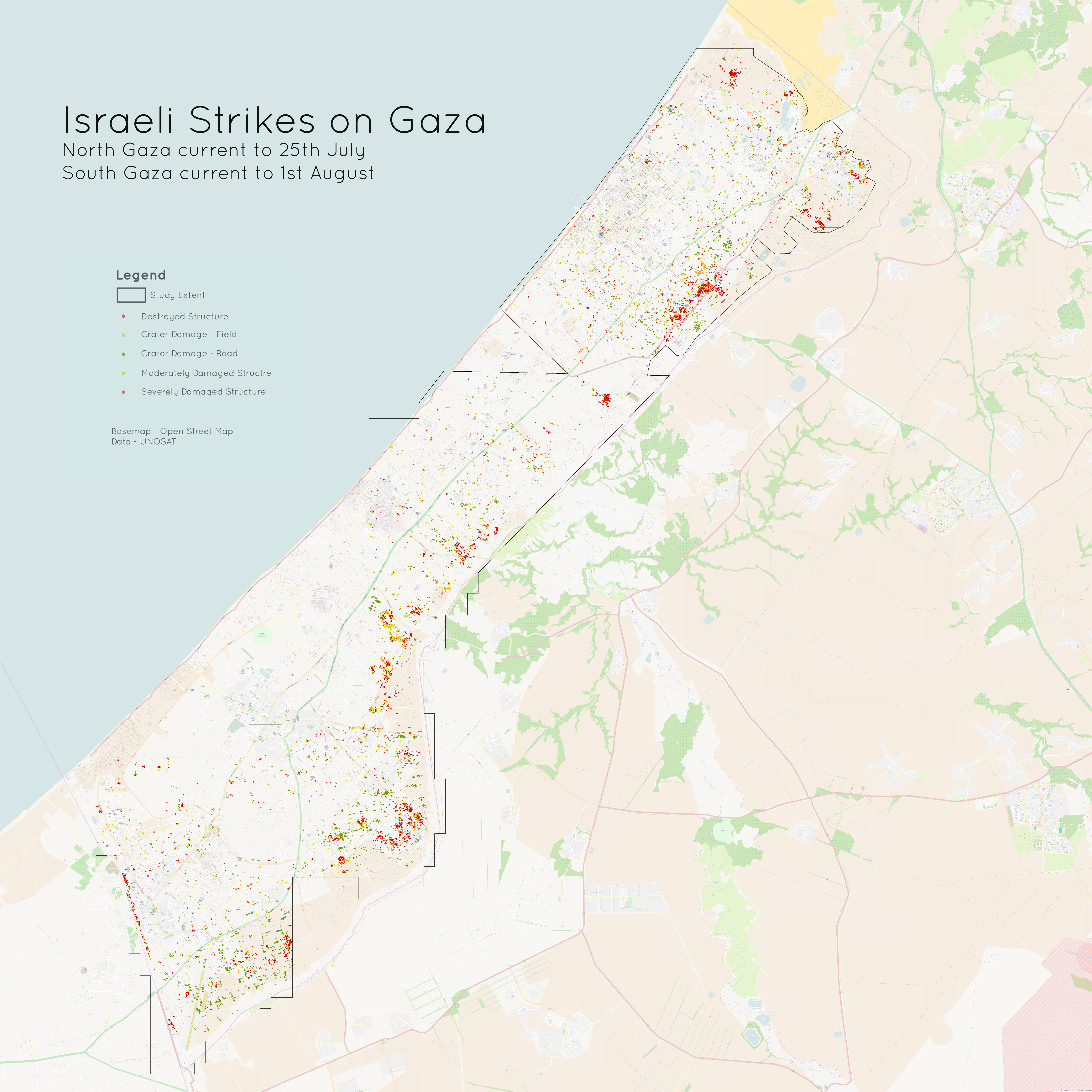 Current up to July 25th 2014. Basemap from Open Street Map and data downloaded from UNOSAT.